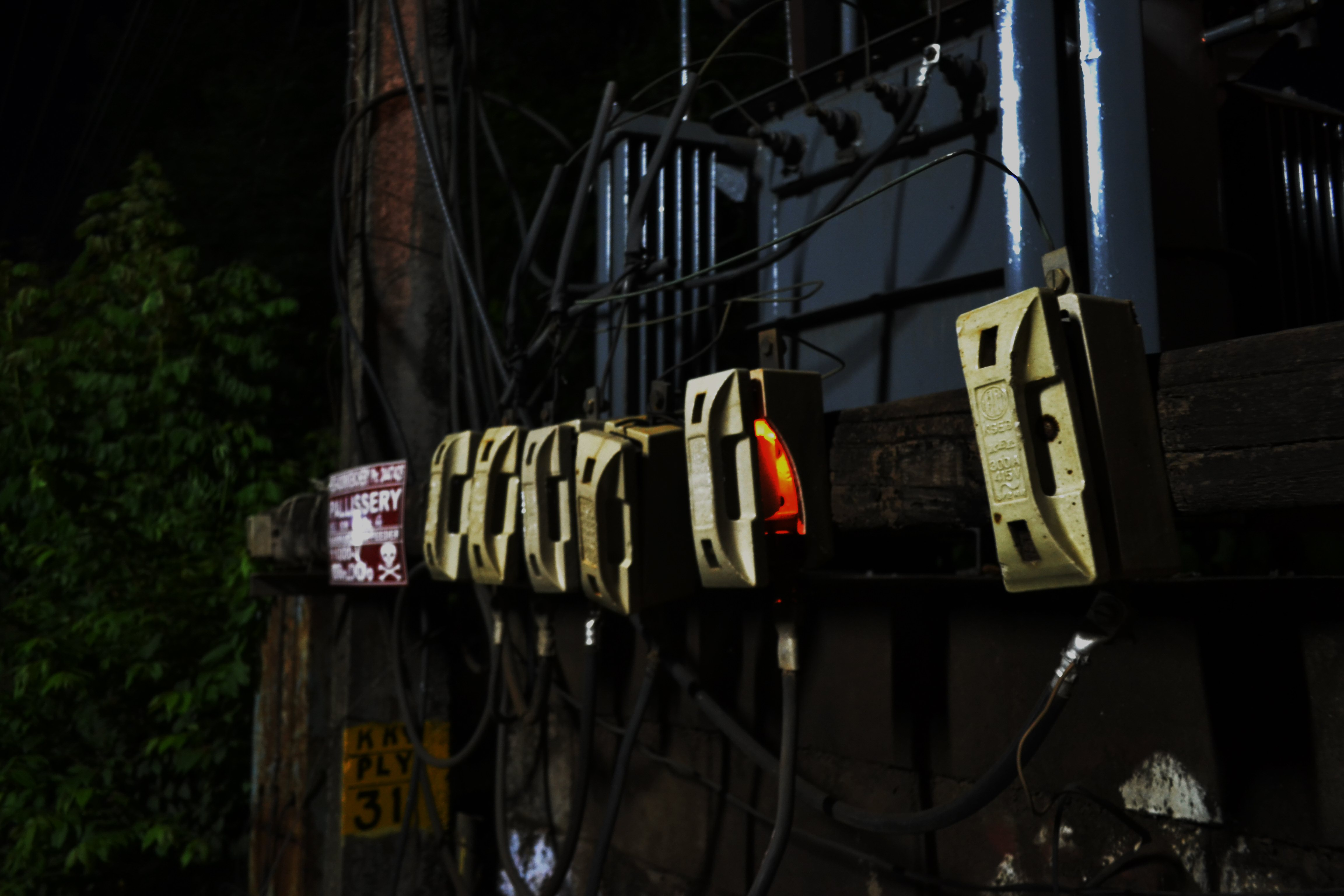 An 11KVto440V Distribution transformer with a faulty secondarycircuit (Ref.DSC 6912a)